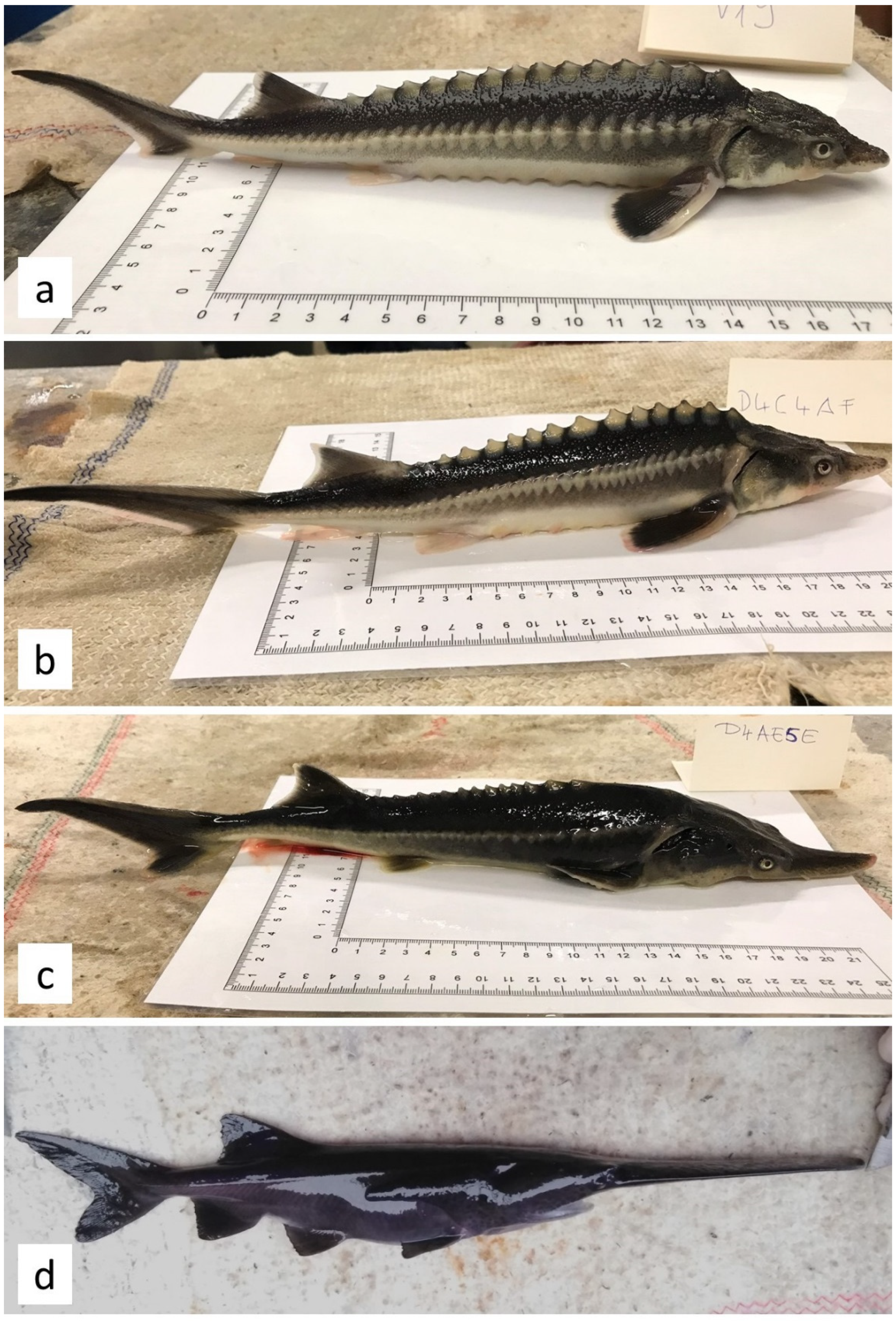 (a) Yearlings of A. gueldenstaedtii and (b) their hybrids: (c) typical LH hybrid, (d) typical SH hybrid of P. spathula.